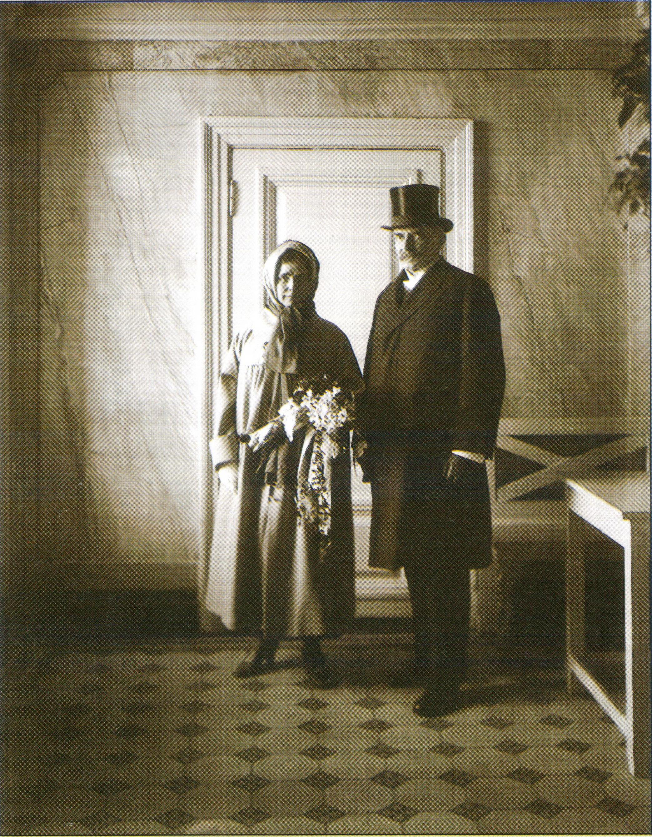 The wedding photograph of the first President of Finland, Kaarlo Juho Ståhlberg, and his second wife, Ester Hällström.